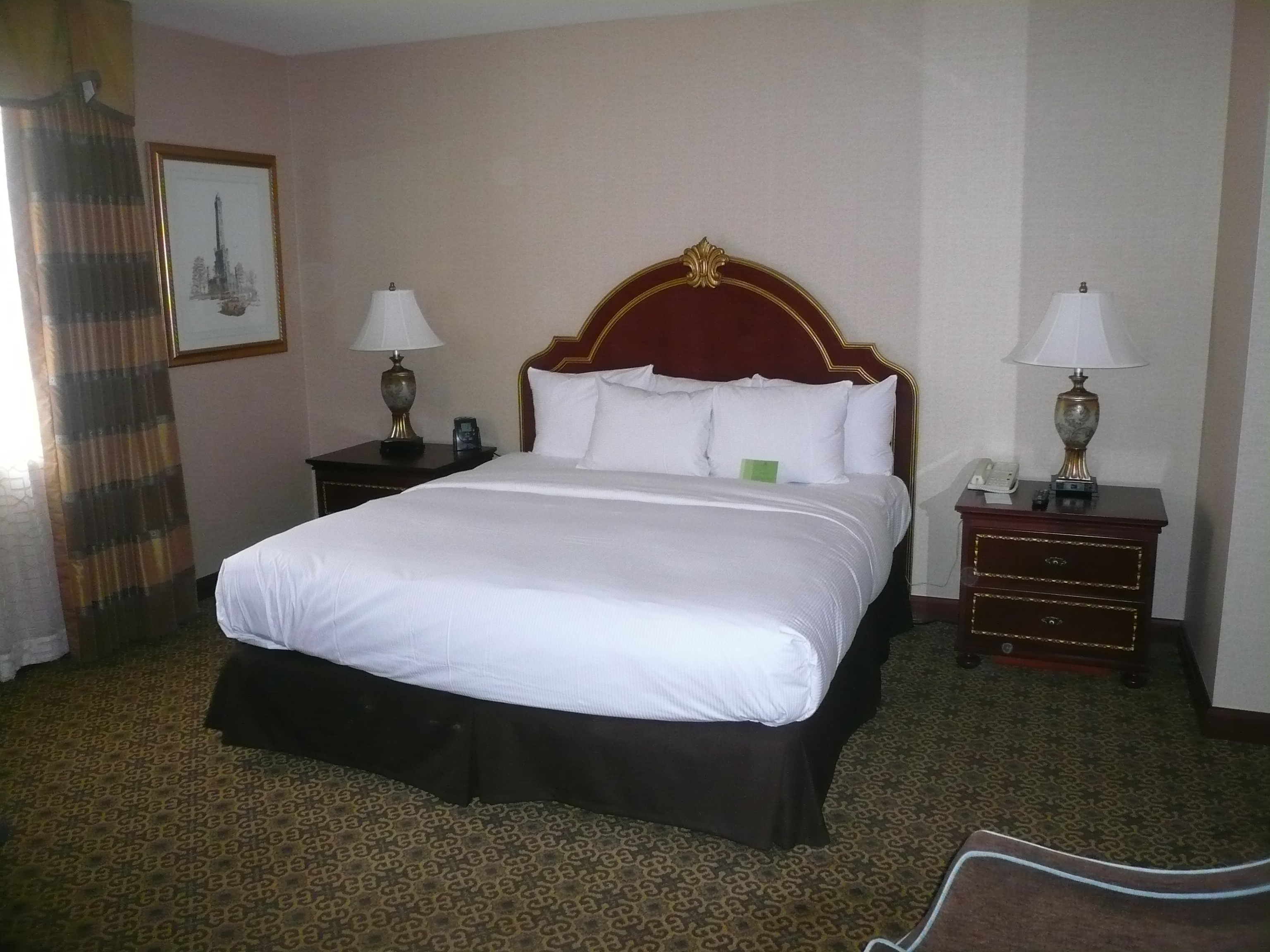 Chicago Hilton hotel room